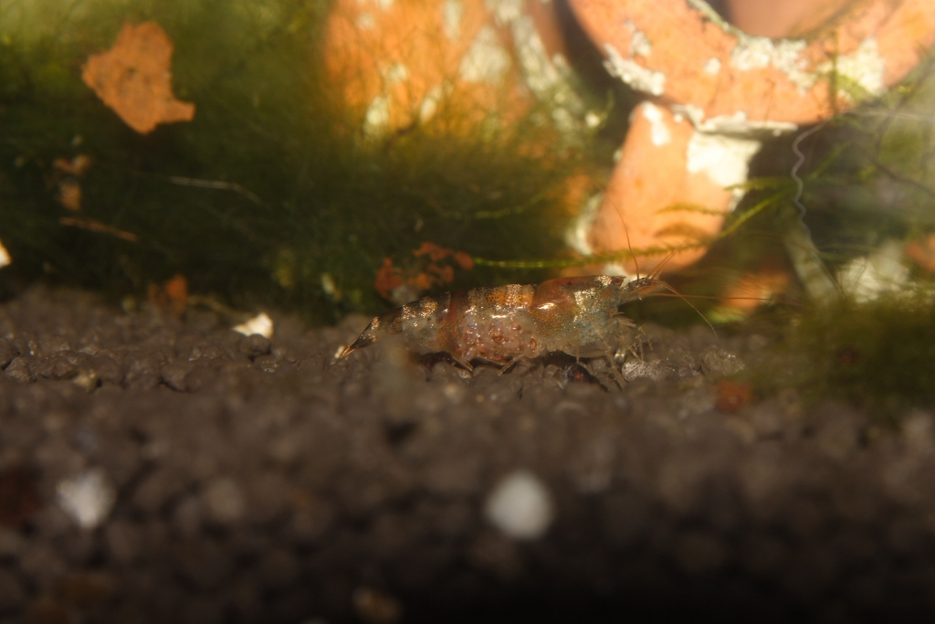 "Caridina breviata" female with eggs